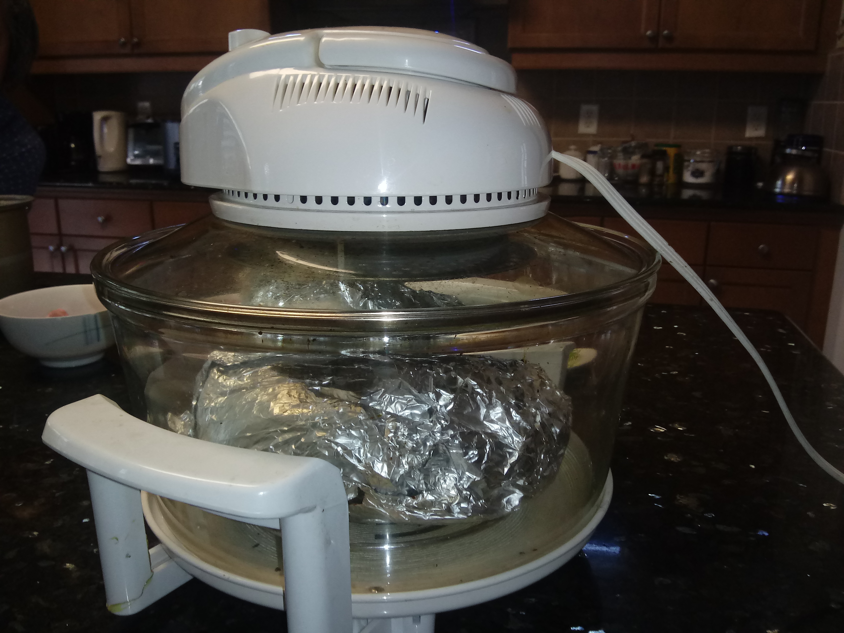 A dish of Beggar's Chicken, wrapped in banana leaves and aluminum foils and bakes in a modern convection oven for over 95 minutes in 482 Fahrenheit instead of it being traditionally covered in clay and in a conventional cooking oven for 2 hours or more in lower heats.